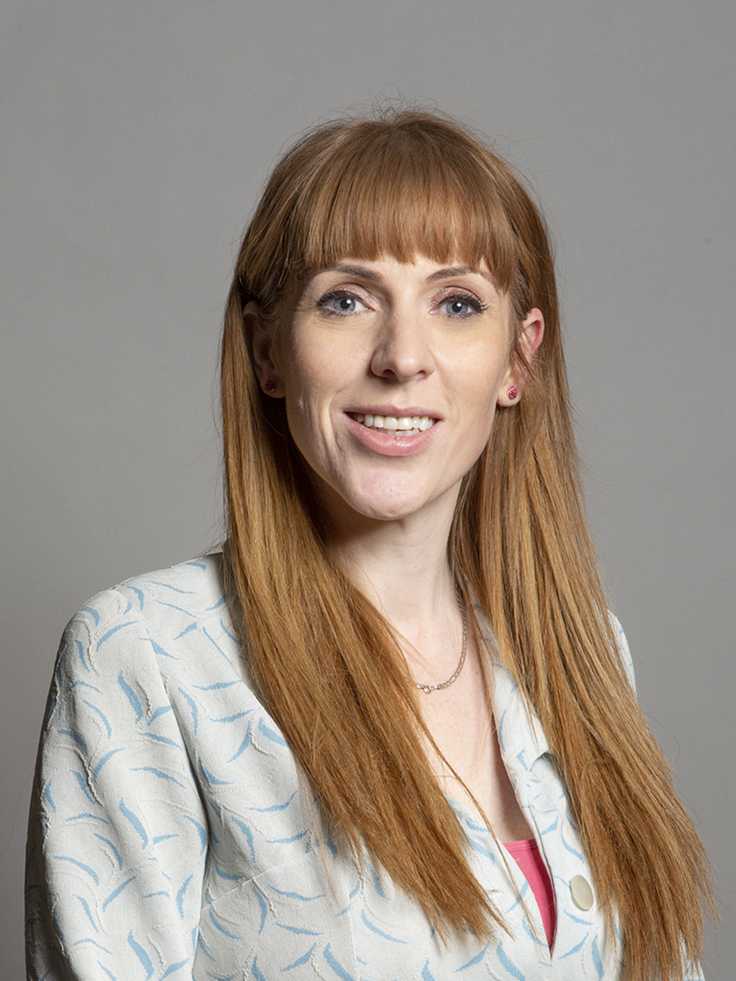 Official portrait of Angela Rayner MP 3×4 portrait of Angela Rayner